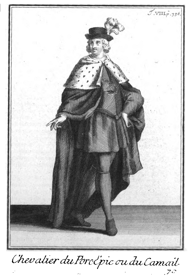 Reconstruction of the ceremony cloth of a Knight of the Order of the Porcupine in Histoire des ordres monastiques, religieux et militaires, et des congregations seculieres de l'un & l'autre sexe, qui ont esté establies jusque'à present